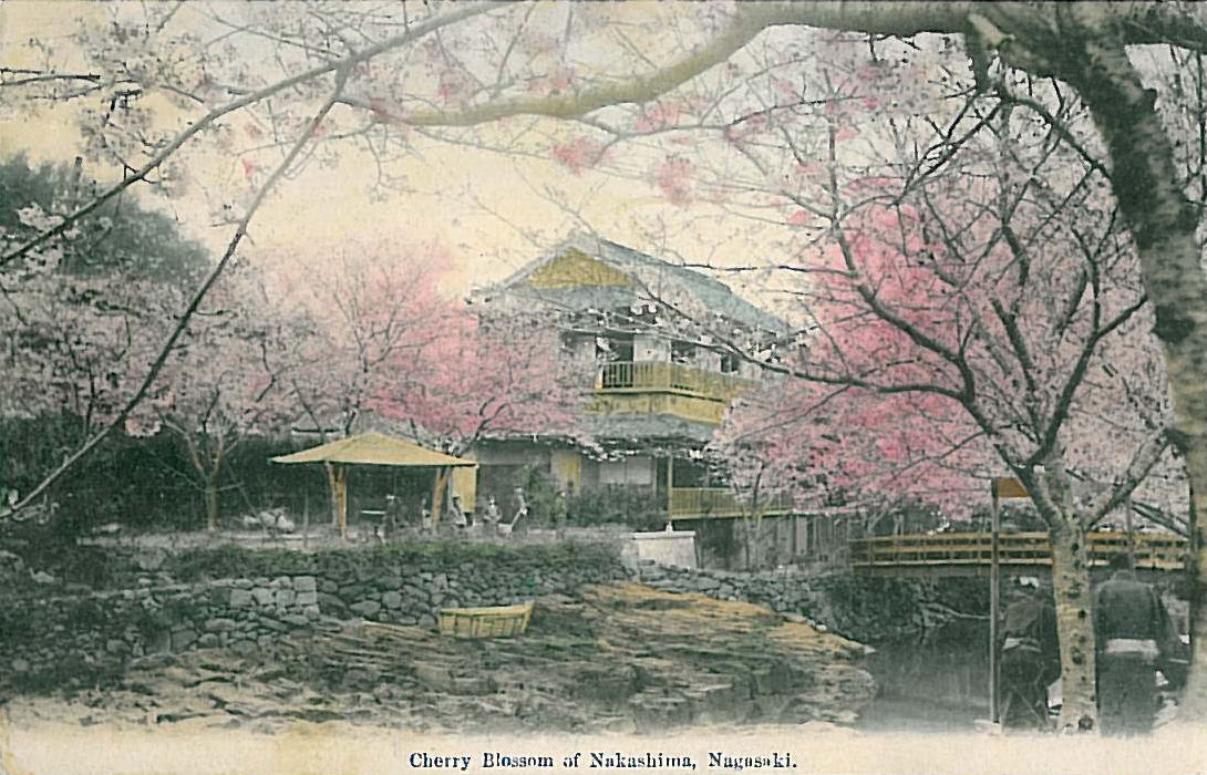 historical view of Nagasaki